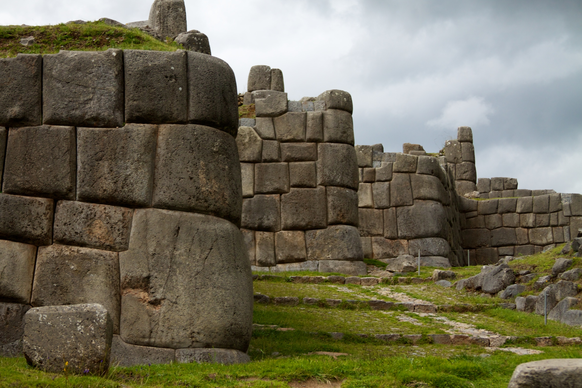 Just uphill from Cusco are the ruins of the Incan temple fortress of Sacsaywamán, meaning "Contented Falcon" in Quechua. Three tiers of zig-zag set walls here formed the defensive perimeter. Sadly, much of the site was dismantled for bricks by the Spaniards to build Cusco's many churches and colonial buildings, but what remains is still amazingly impressive for the size and perfect fit of the stone blocks making up its walls. Some are several tonnes in weight (the largest is recorded as over 70 tons!).